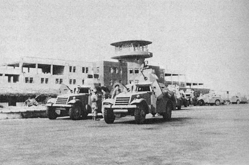 Lydda Airport (today Ben-Gurion International Airport), following its capture by the IDF in July 1948. This work or image is now in the public domain because its term of copyright has expired in Israel (details). According to Israel's copyright statute from 2007 (translation), a work is released to the public domain on 1 January of the 71st year after the author's death (paragraph 38 of the 2007 statute) with the following exceptions: A photograph taken on 24 May 2008 or earlier — the old British Mandate act applies, i.e. on 1 January of the 51st year after the creation of the photograph (paragraph 78(i) of the 2007 statute, and paragraph 21 of the old British Mandate act). If the copyrights are owned by the State, not acquired from a private person, and there is no special agreement between the State and the author — on 1 January of the 51st year after the creation of the work (paragraphs 36 and 42 in the 2007 statute). See also category: PD Israel & British Mandate.